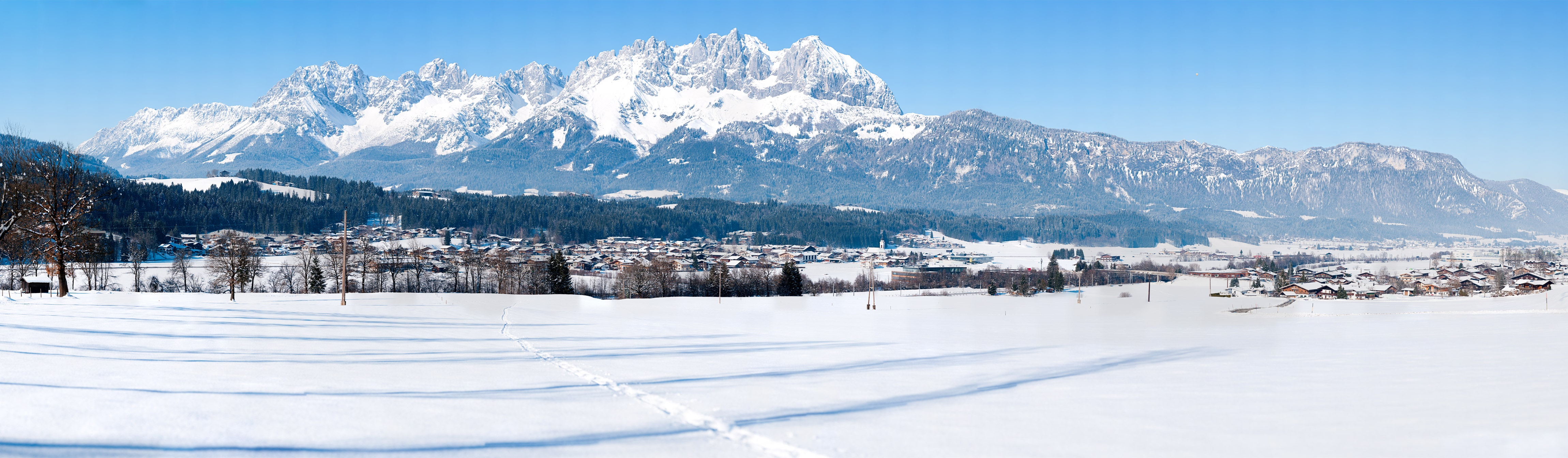 View onto Oberndorf in Tirol with the "Wilder Kaiser" in the back. Full Resolution image (160.101x43.042) is available at